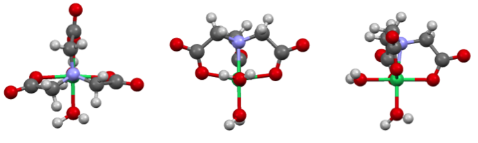 three views of the Xray structure of [Ni(NTA)(H2O)2]-Türkçe: [Ni(NTA)(H2O)2]'in(Nikel nitrilotriasetik asit kompleksi.) yapısının 3 tane X ışını görüntüsü